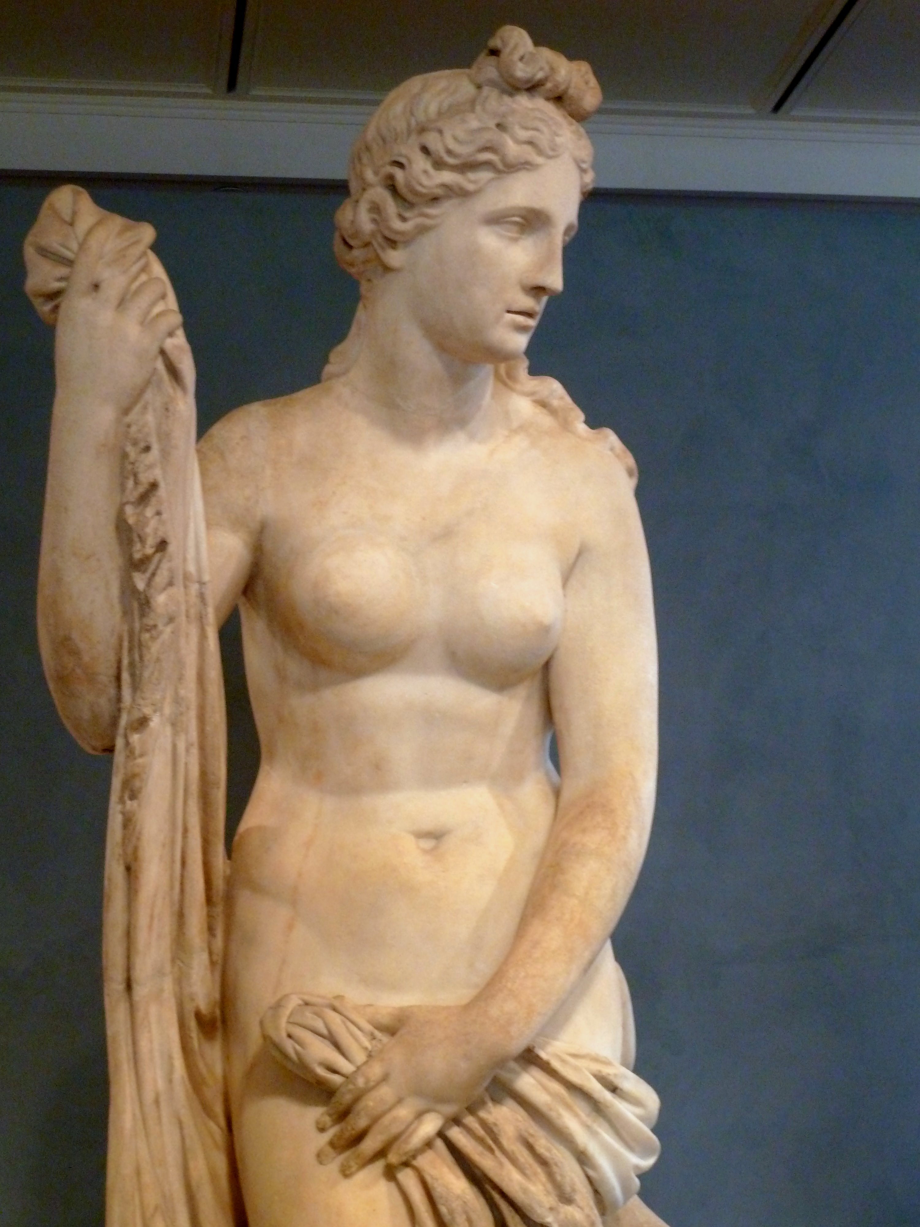 "Venus, the goddess of love, stands nude, grasping a piece of cloth around her hips. The dolphin at her feet supports the figure and alludes to the goddess's birth from the sea. This depiction of Venus ultimately derived from an extremely popular Greek statue created by the sculptor Praxiteles about 350 B.C. Indeed Praxiteles' statue was so popular that, beginning around 100 B.C., many artists created variations on his theme of the naked Venus. This statue is a Roman reproduction of one of those Hellenistic variants. In 1509 it was discovered in Rome, where it contributed to the Renaissance revival of the Classical tradition. Scholars once believed that this statue was owned by Cardinal Mazarin, advisor to Louis XIV, king of France. Although this is unlikely, the statue is still known to many as the Mazarin Venus. During its long history, the statue has been heavily damaged. The breasts, as well as parts of the cloth, arms, and dolphin, are restored. The head probably belonged to another ancient statue. Marks on the back of the statue have been interpreted as gunshot wounds suffered during the French Revolution, although this story may be based more in romance than in fact."— J. Paul Getty Museum / CC-BY-4.0 , in